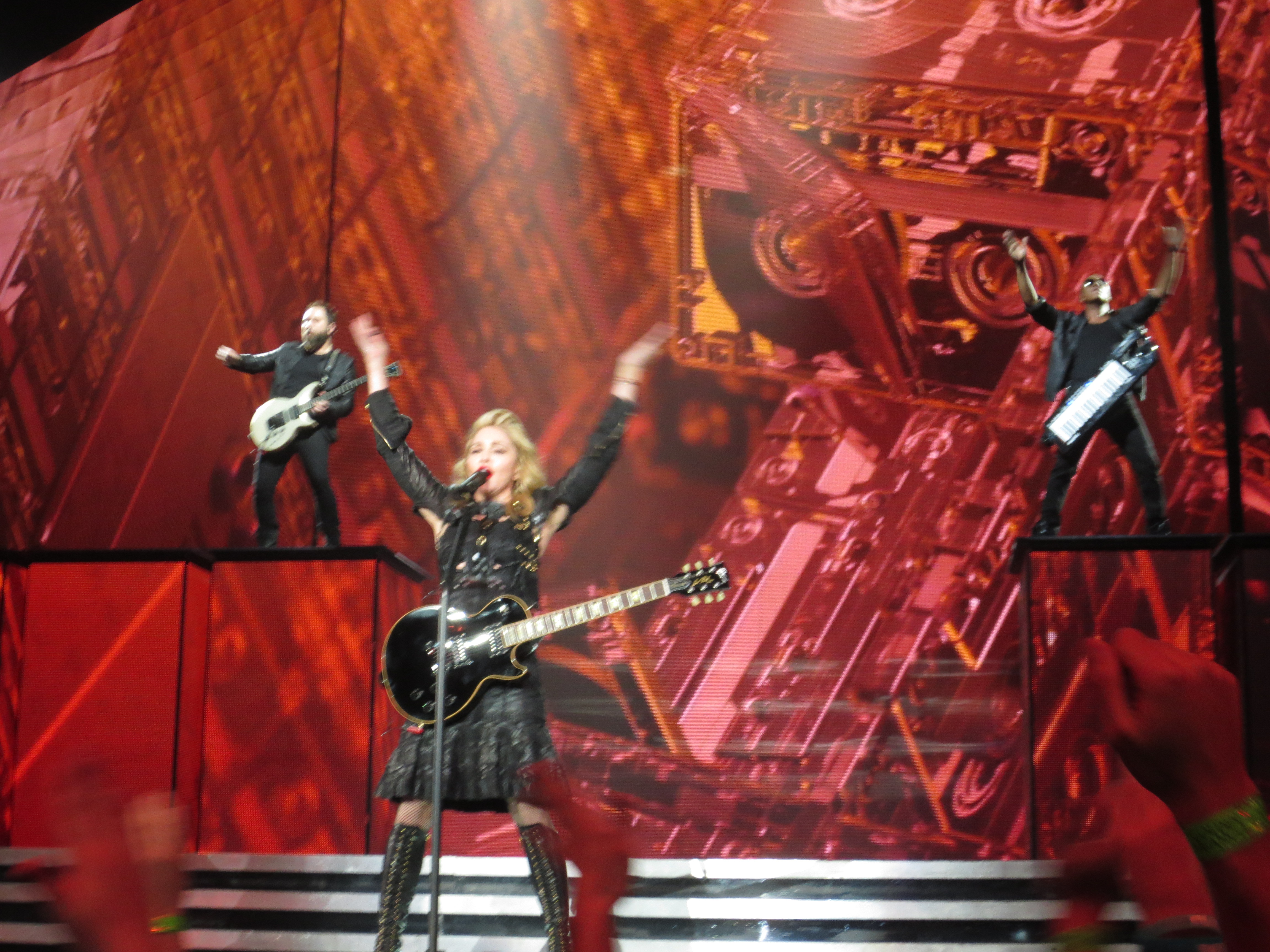 2012 10-25 MDNA Madonna Houston (181)